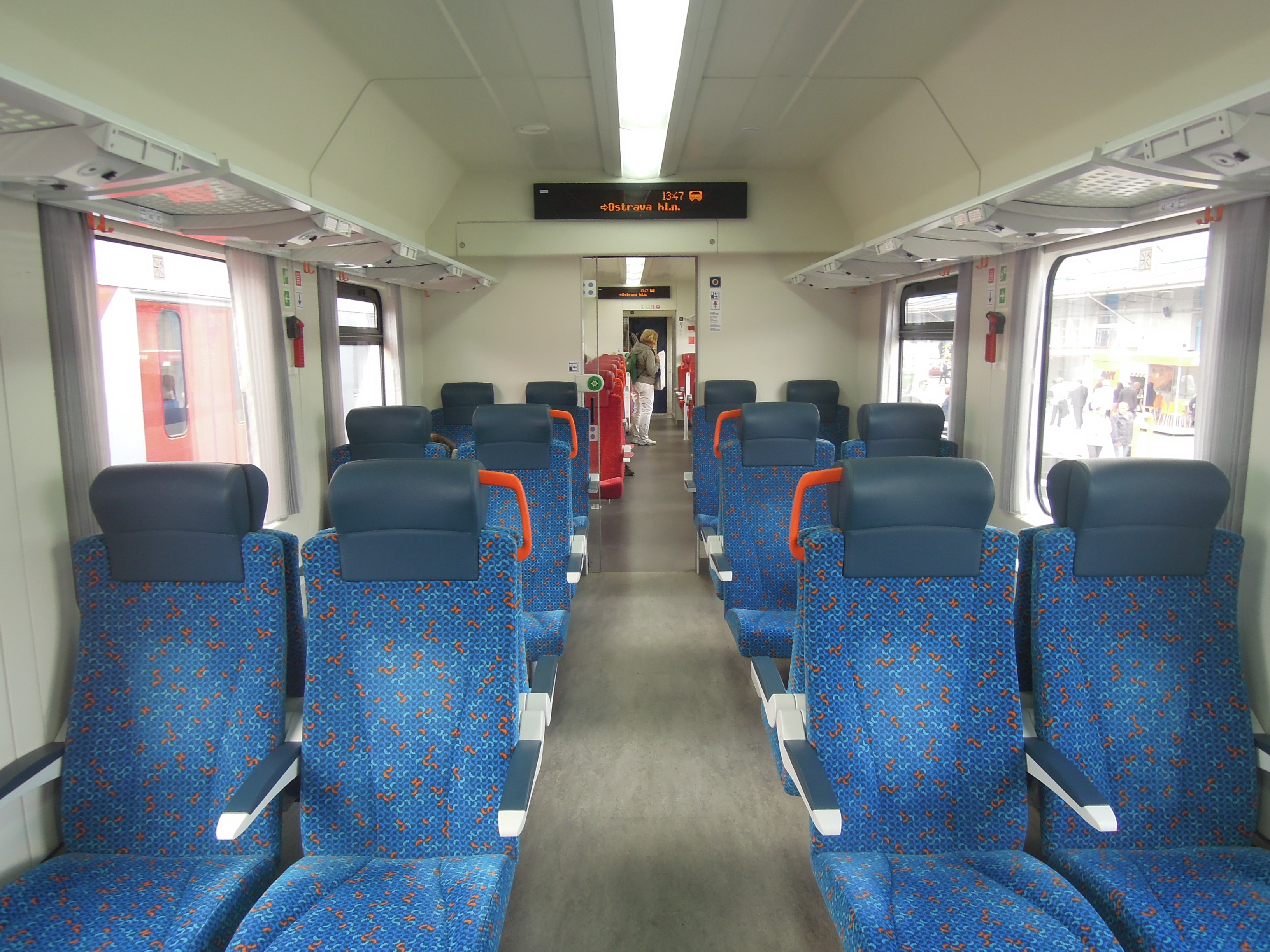 Passenger car class ABpee347 of České dráhy at the Czech Raildays 2015 trade fair in Ostrava, Czech Republic